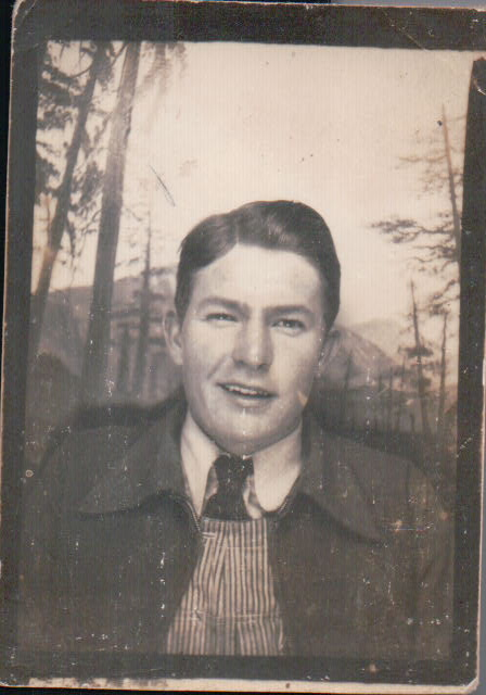 Coleman Francis 1934 Portrait (Front Of Photo)